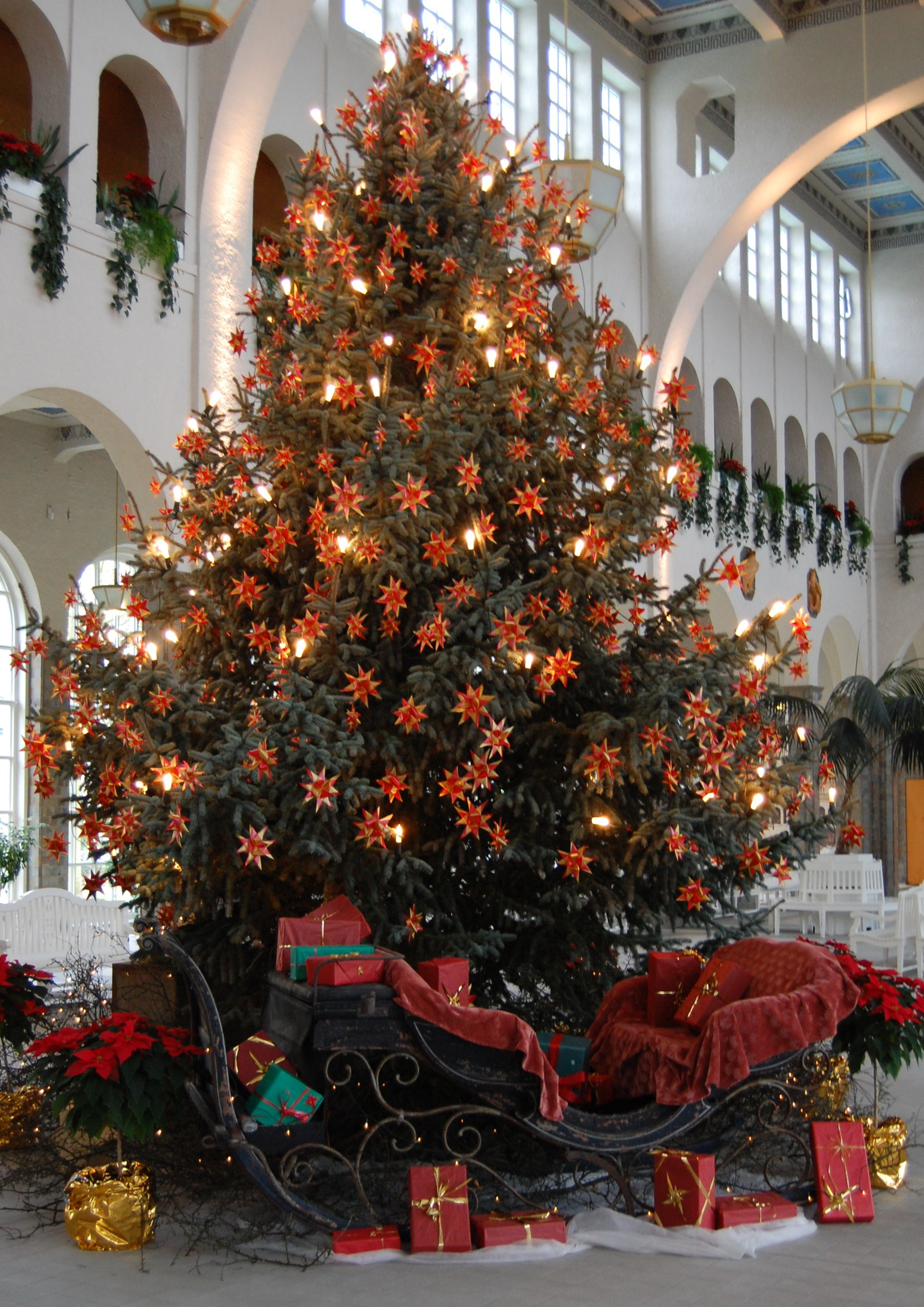 Christmas tree in Bad Kissingen (2008)